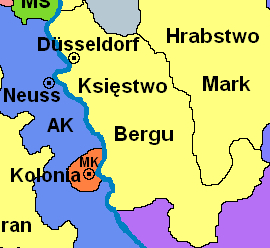 Map of duchies of Cleves, Berg, Mark and Jülich, 1477.